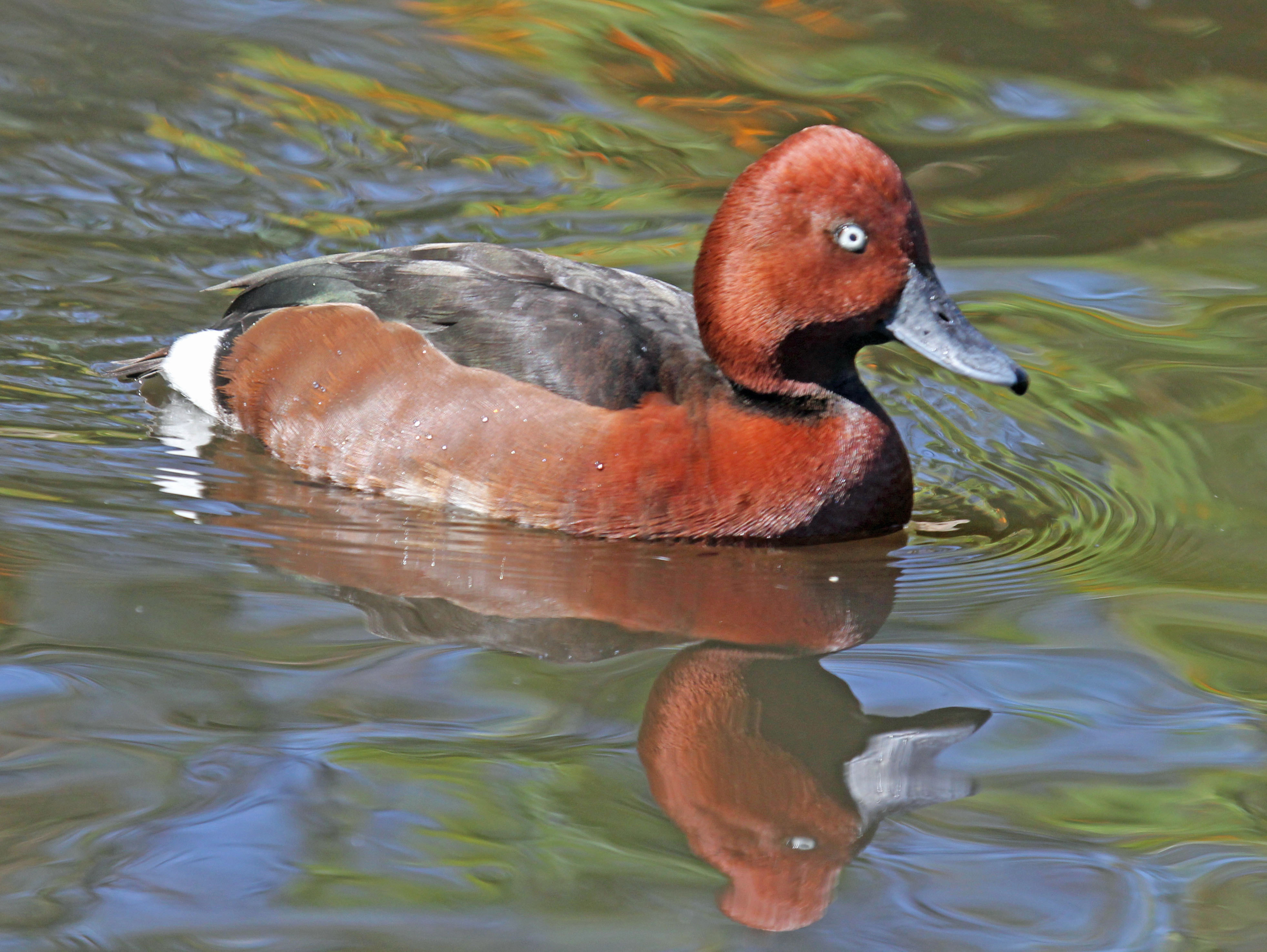 Ferruginous Duck (Aythya nyroca) at Birds of Eden aviary, South Africa